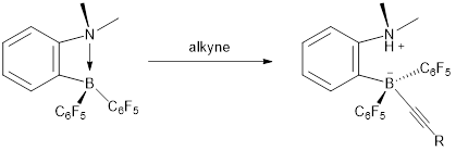 Binding of terminal alkyne to the Frustrated Lewis Pair catalyst